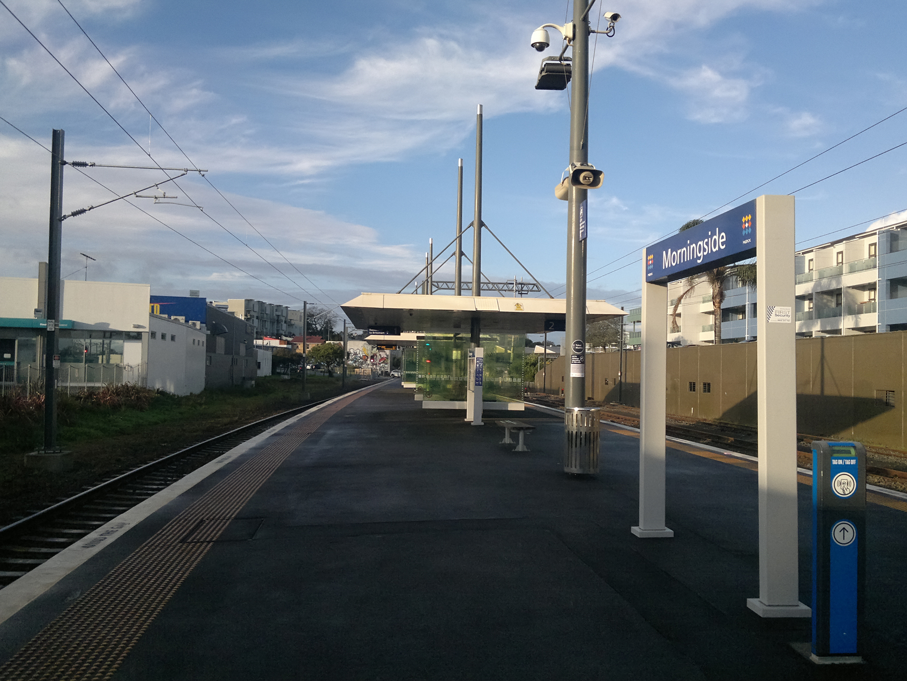 Looking east at Morningside Station in 2014.